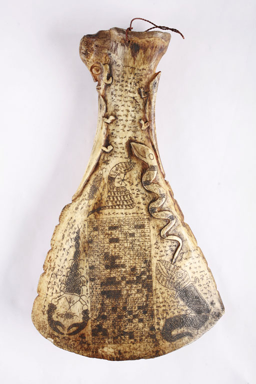 A Carved bone calendar and almanac in the permanent collection of The Children’s Museum of Indianapolis.